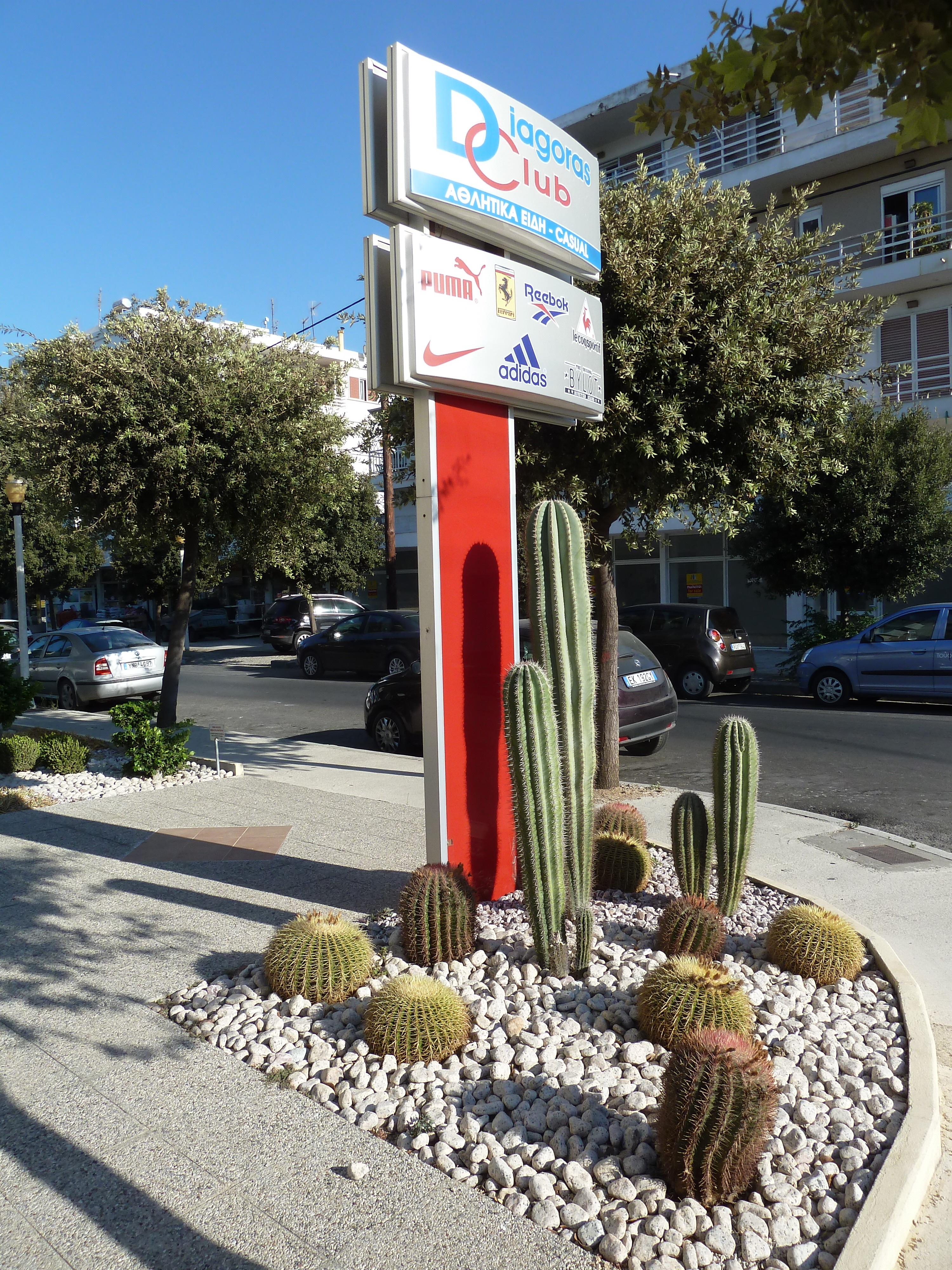 Rhodes Town. Cactus display.